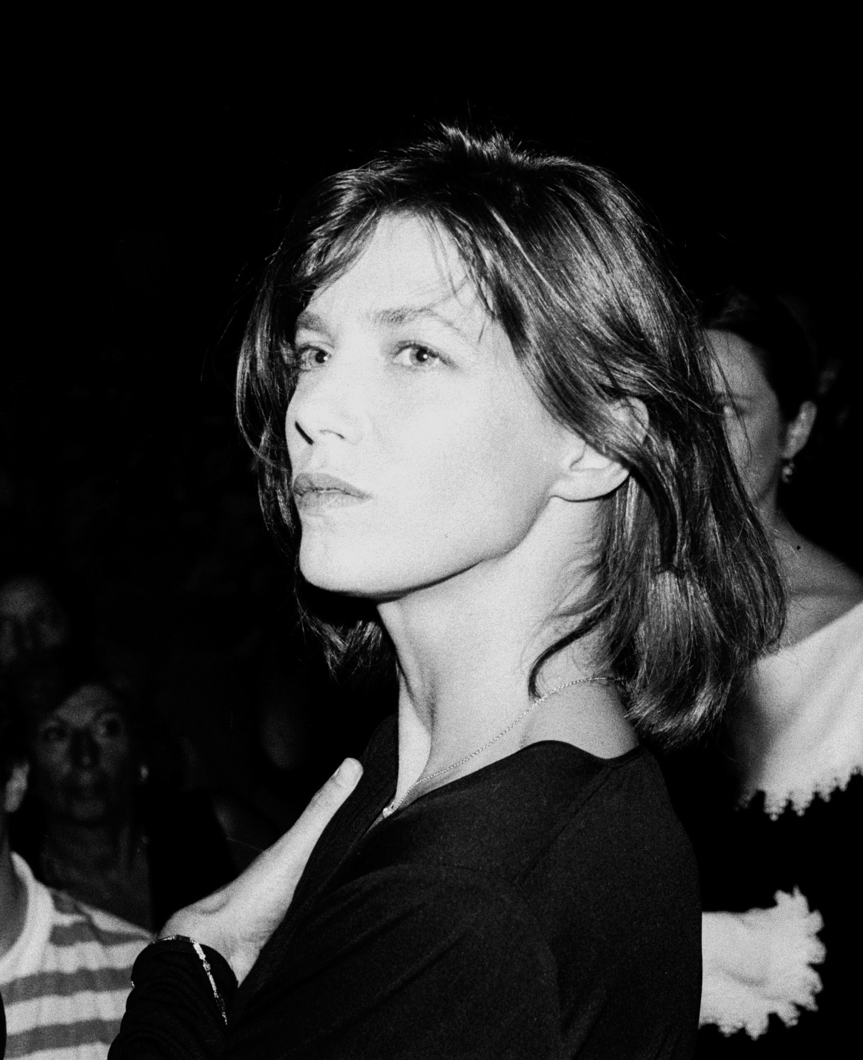 English actress and singer Jane Birkin at the American film festival in Deauville, Normandie, France